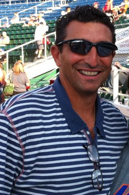 MLB executive J.P. Ricciardi poses with a fan in 2011. Photo courtesy of Julie Rubinstein, via Flickr. Cropped significantly from original.